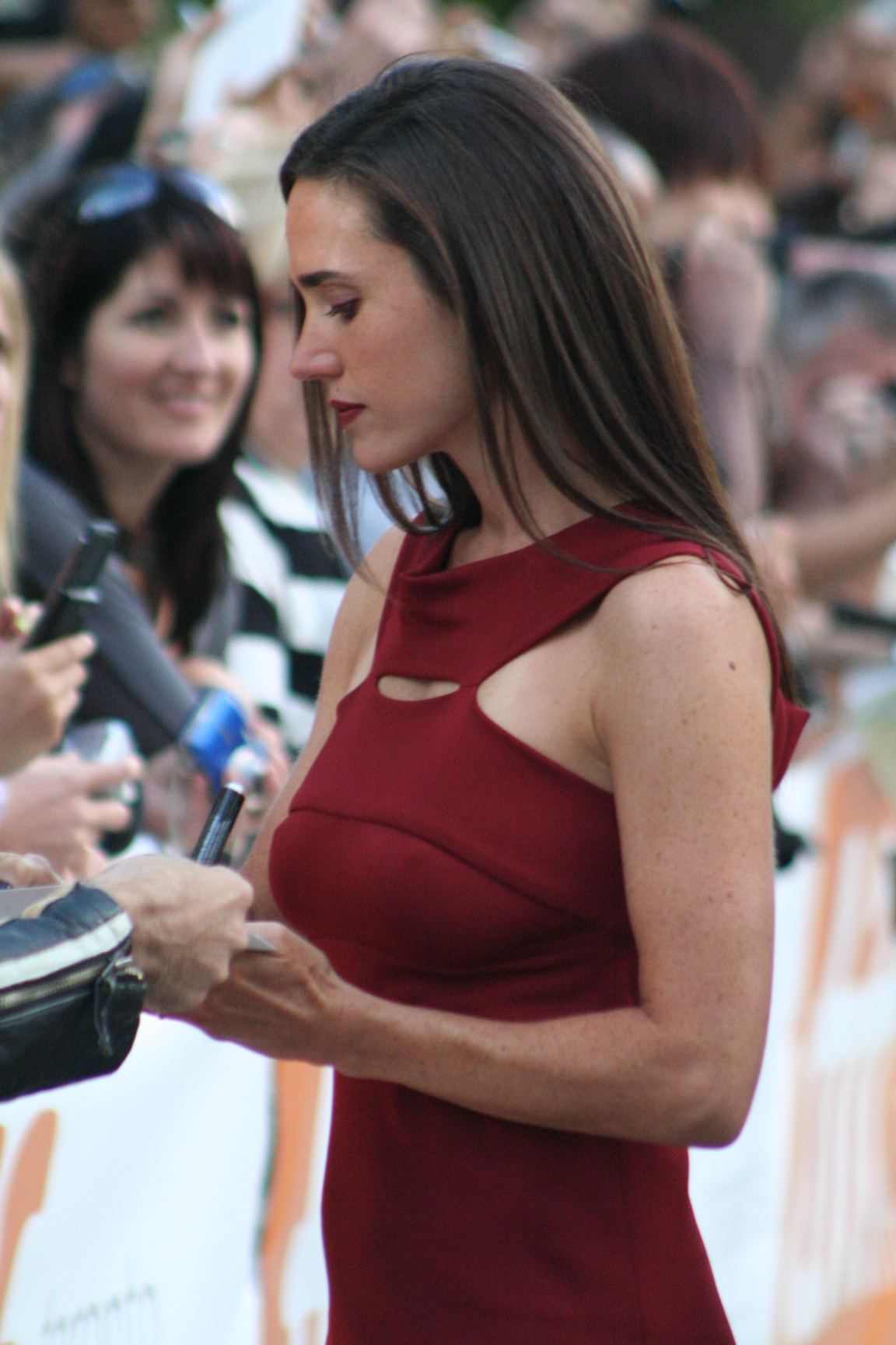 Jennifer Connelly at the 2009 Toronto International Film Festival